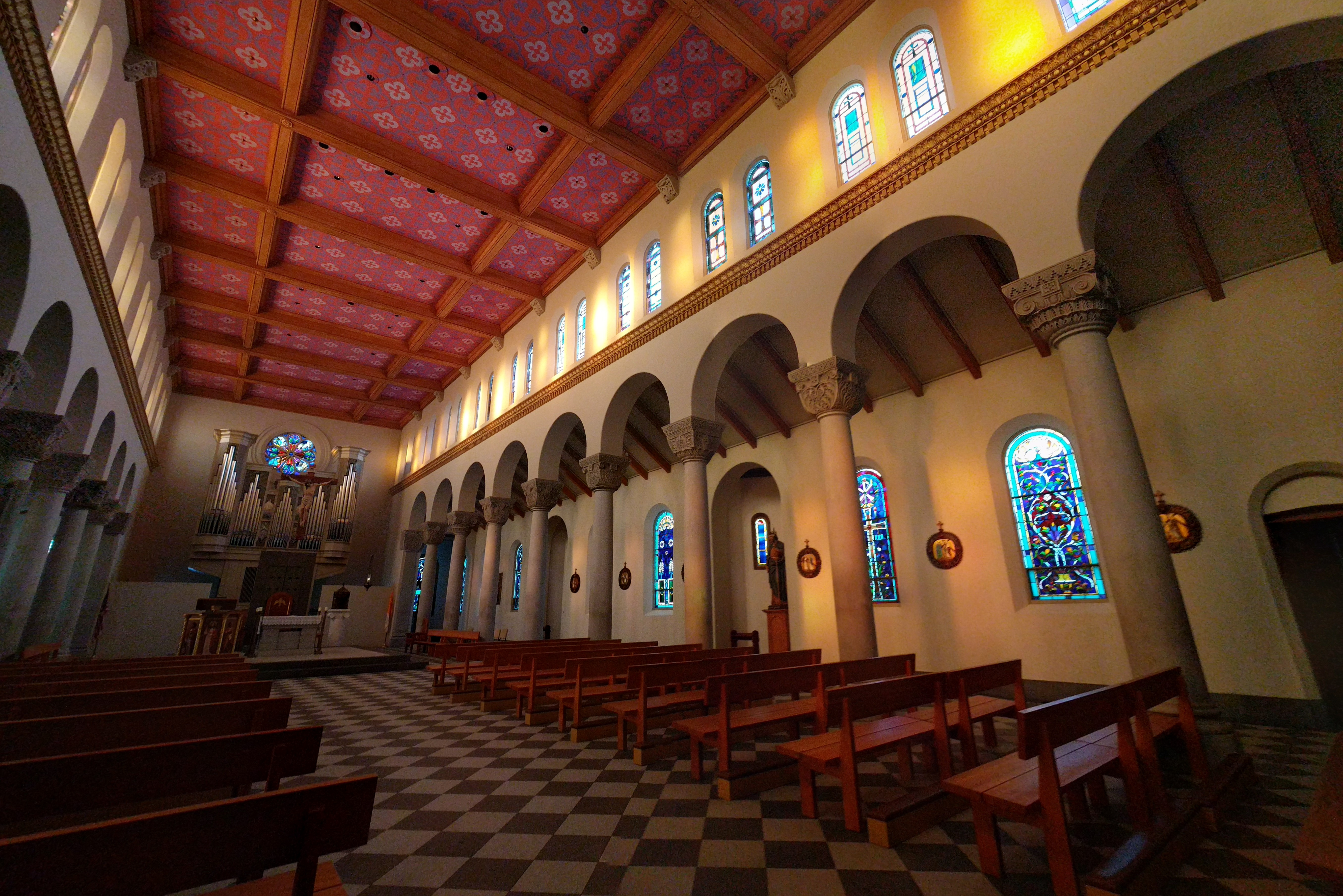 Interior of St. Mary's Chapel at the Saint Paul Seminary School of Divinity